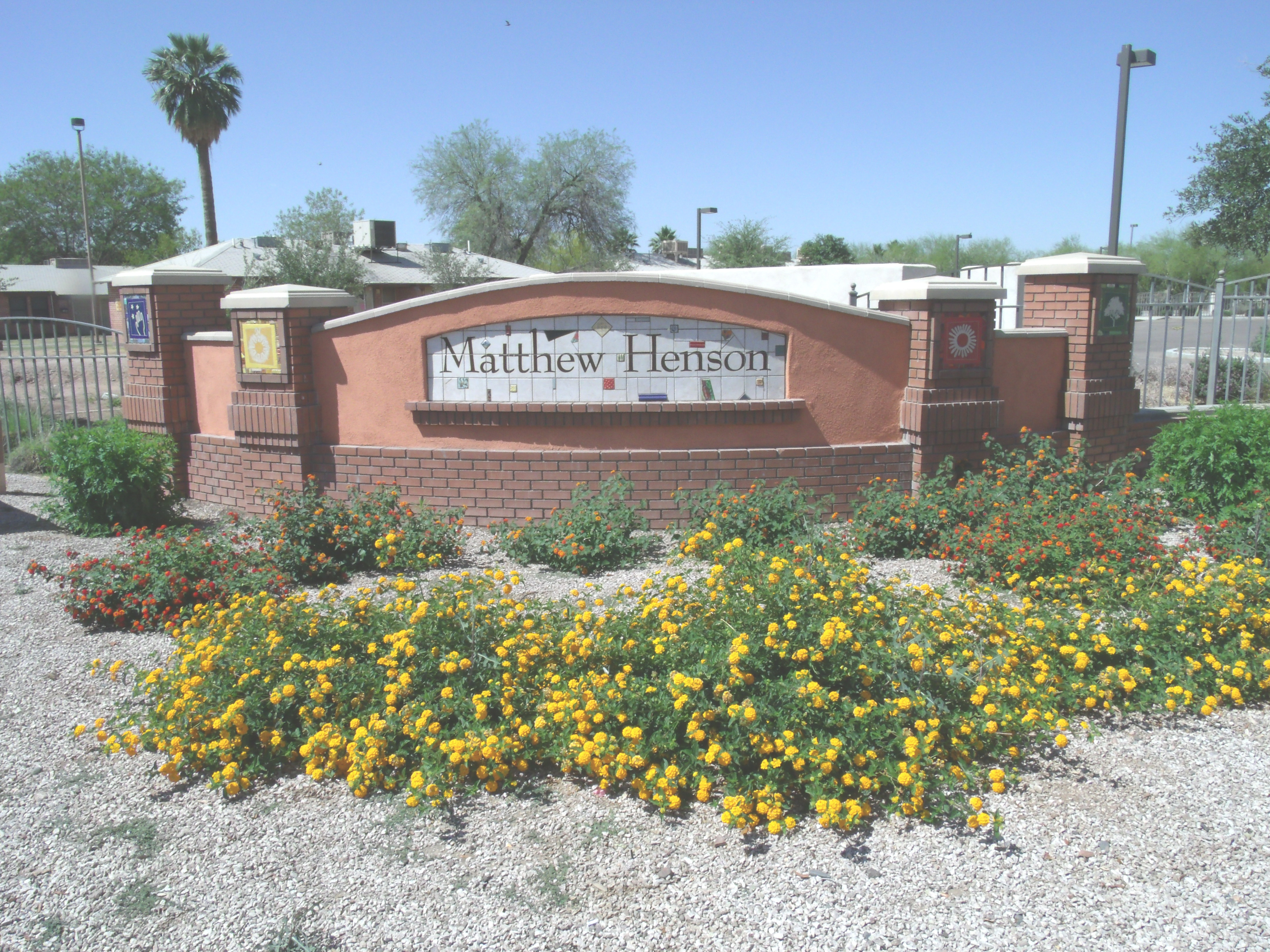 Entrance of where the historic Matthew Henson Public Housing Project once stood. The Matthew Henson Public Housing Project was built in 1940 and provided affordable housing for the African-American community. The Matthew Henson Public Housing Project District is located on the west side of Seventh Avenue just south of the Sherman Street alignment. It was named as a historic district by the Phoenix Historic Property Register in June 2005. courtyard grouping in Matthew Henson will be preserved from demolition.